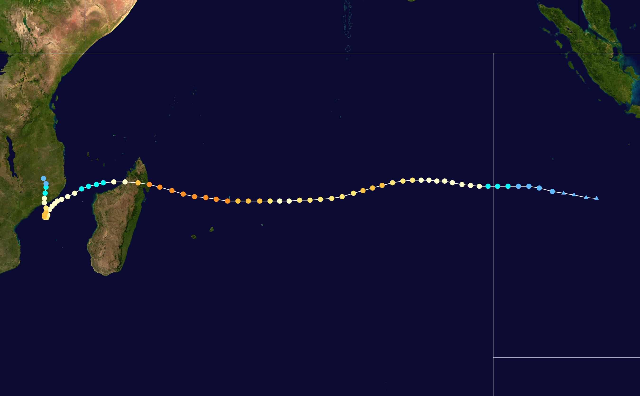 Track map of Very Intense Tropical Cyclone Hudah of the 1999-2000 South-West Indian Ocean cyclone season. The points show the location of the storm at 6-hour intervals. The colour represents the storm's maximum sustained wind speeds as classified in the Saffir–Simpson scale (see below), and the shape of the data points represent the nature of the storm, according to the legend below. Saffir–Simpson scale Tropical depression≤38 mph≤62 km/h Category 3111–129 mph178–208 km/h Tropical storm39–73 mph63–118 km/h Category 4130–156 mph209–251 km/h Category 174–95 mph119–153 km/h Category 5≥157 mph≥252 km/h Category 296–110 mph154–177 km/h Unknown Storm type Tropical cyclone Subtropical cyclone Extratropical cyclone / Remnant low / Tropical disturbance